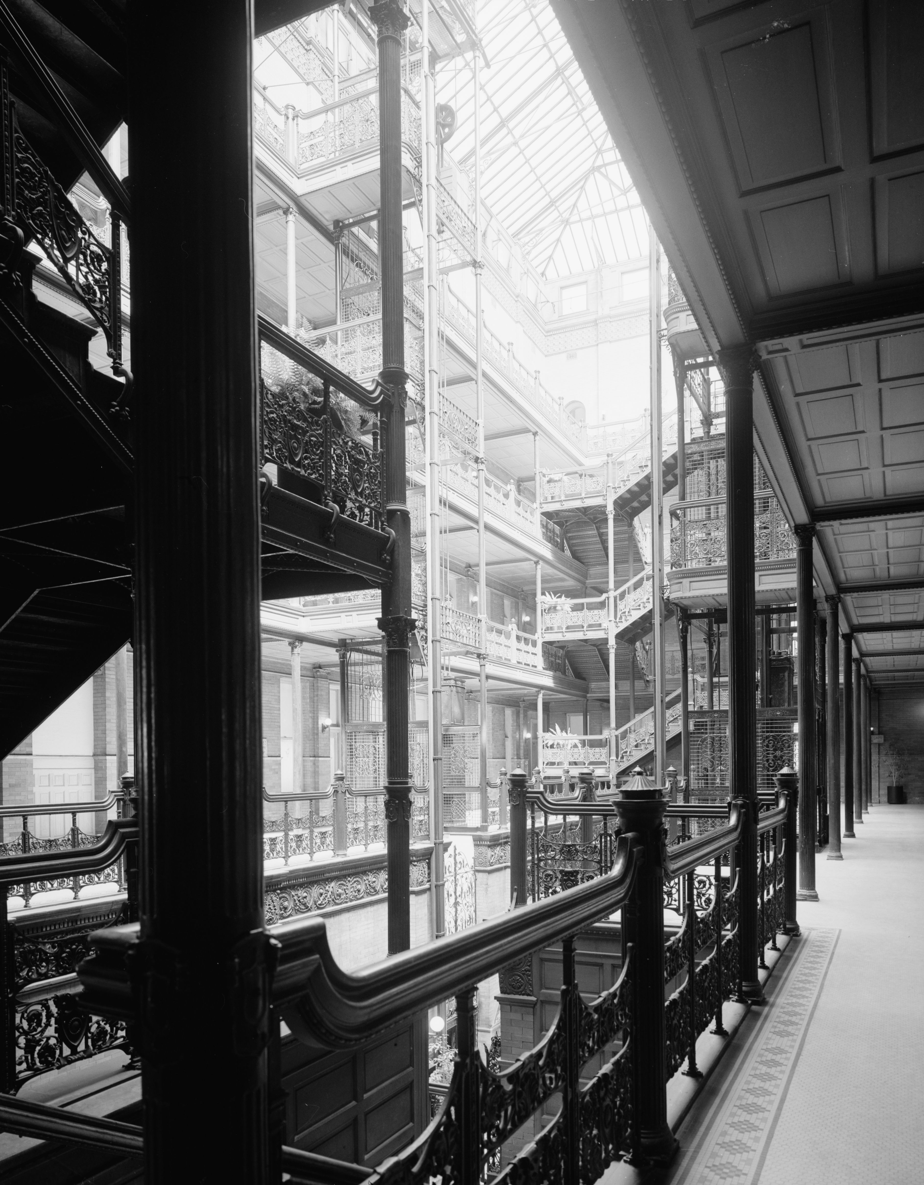 Oblique view of central court from balcony. Staircases and atrium interior of the Bradbury Building, Downtown Los Angeles. Courtesy of the Historic American Buildings Survey, Library of Congress, Washington, D. C.